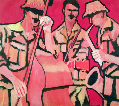 TIME OUT by David N. Fairrington, CAT VI, 1968, Courtesy of the National Museum of the U.S. Army